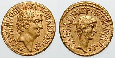 Mark Antony and Octavian. 41 BC. AV Aureus (7.95 gm). Mint moving with Mark Antony. M. Barbatius Pollio, moneyer. M ANT IMP AVG III VIR R P C M BARBAT Q P, bare head of Antony right / CAESAR IMP PONT III VIR R P C, bare head of Octavian right. Crawford 517/1a; Sear, CRI 242; R. Newman, "A Dialogue of Power in the Coinage of Antony and Octavian," ANSAJN 2 (1990), 41.1; Sydenham 1180; BMCRR (East) 98; Bahrfeldt 77. Near EF, Very rare.